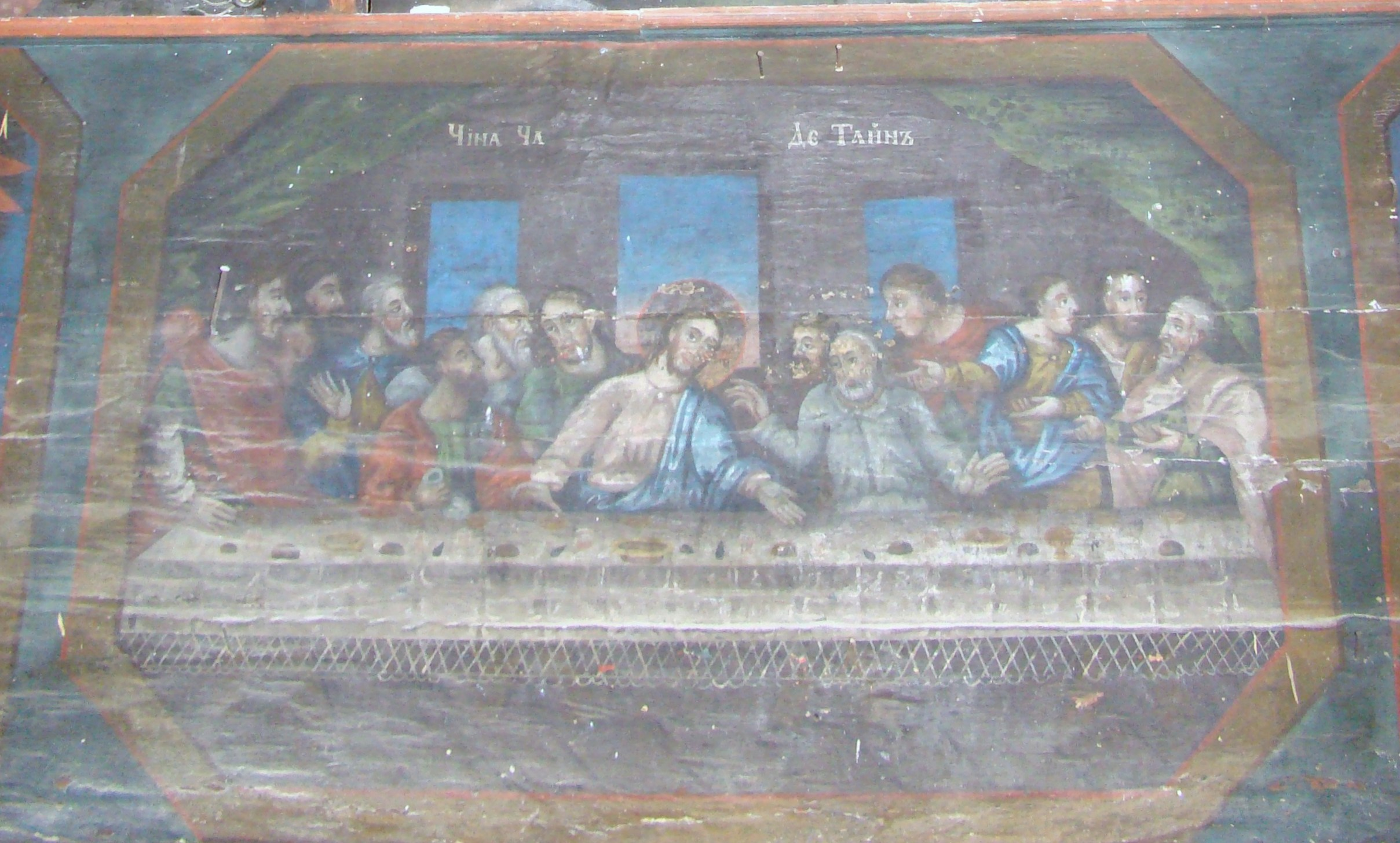 Wooden church in Ionești, Arad county, Romania